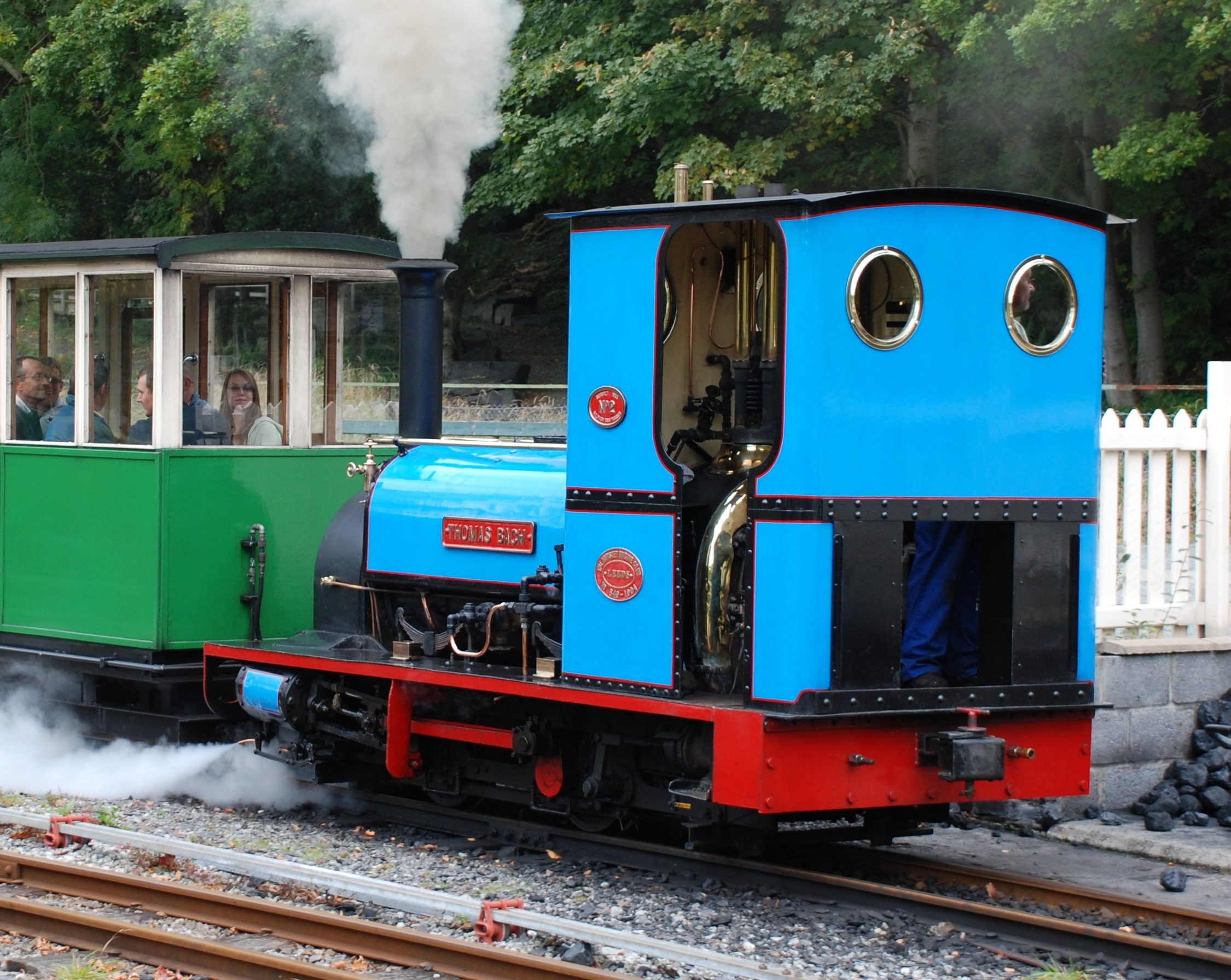 Alice Class locomotive Thomas Bach leading a train for Llanberis out of Gilfach Ddu station on the Llanberis Lake Railway Author: Vanoord